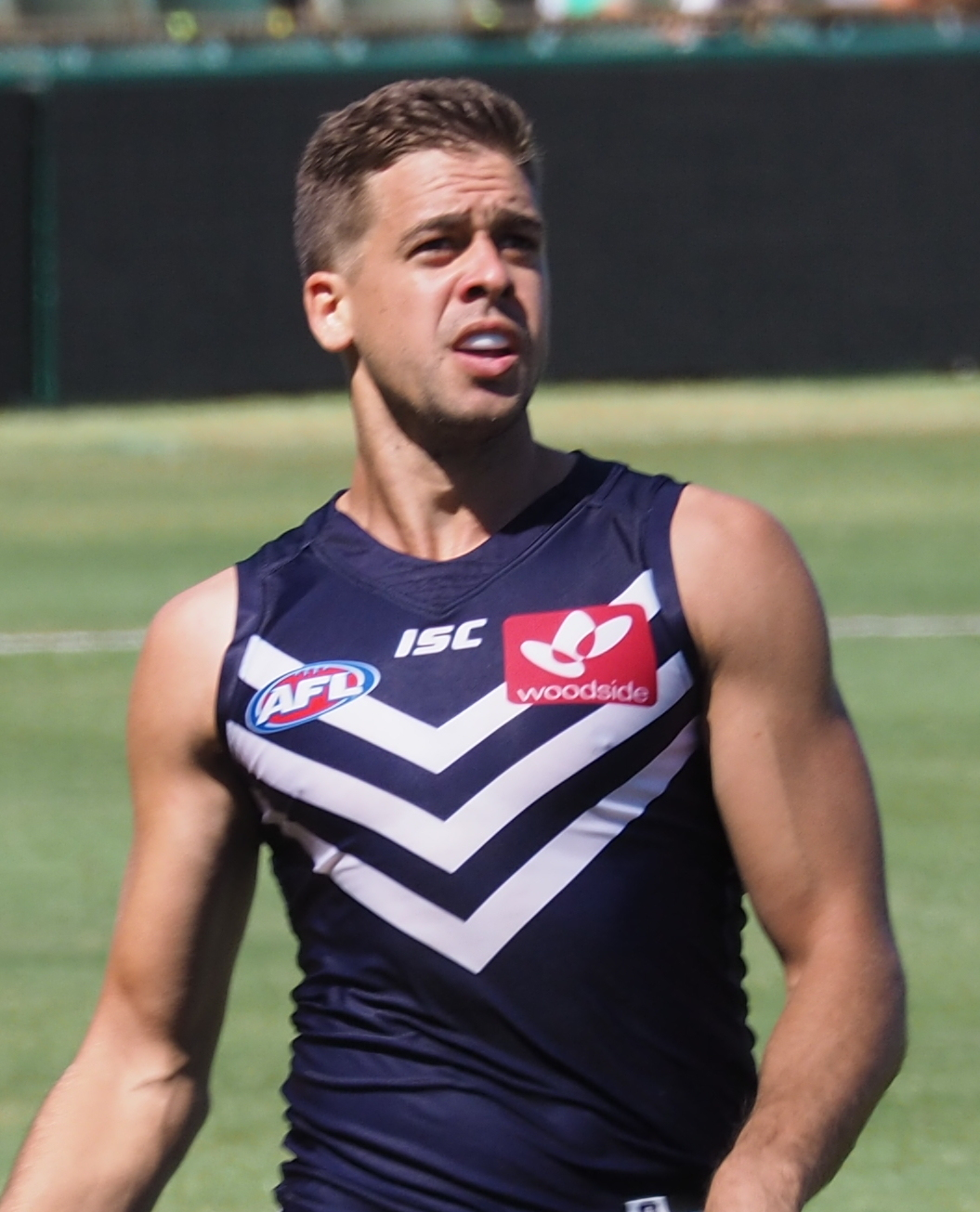 Stephen Hill playing for the Fremantle Football Club in March 2016